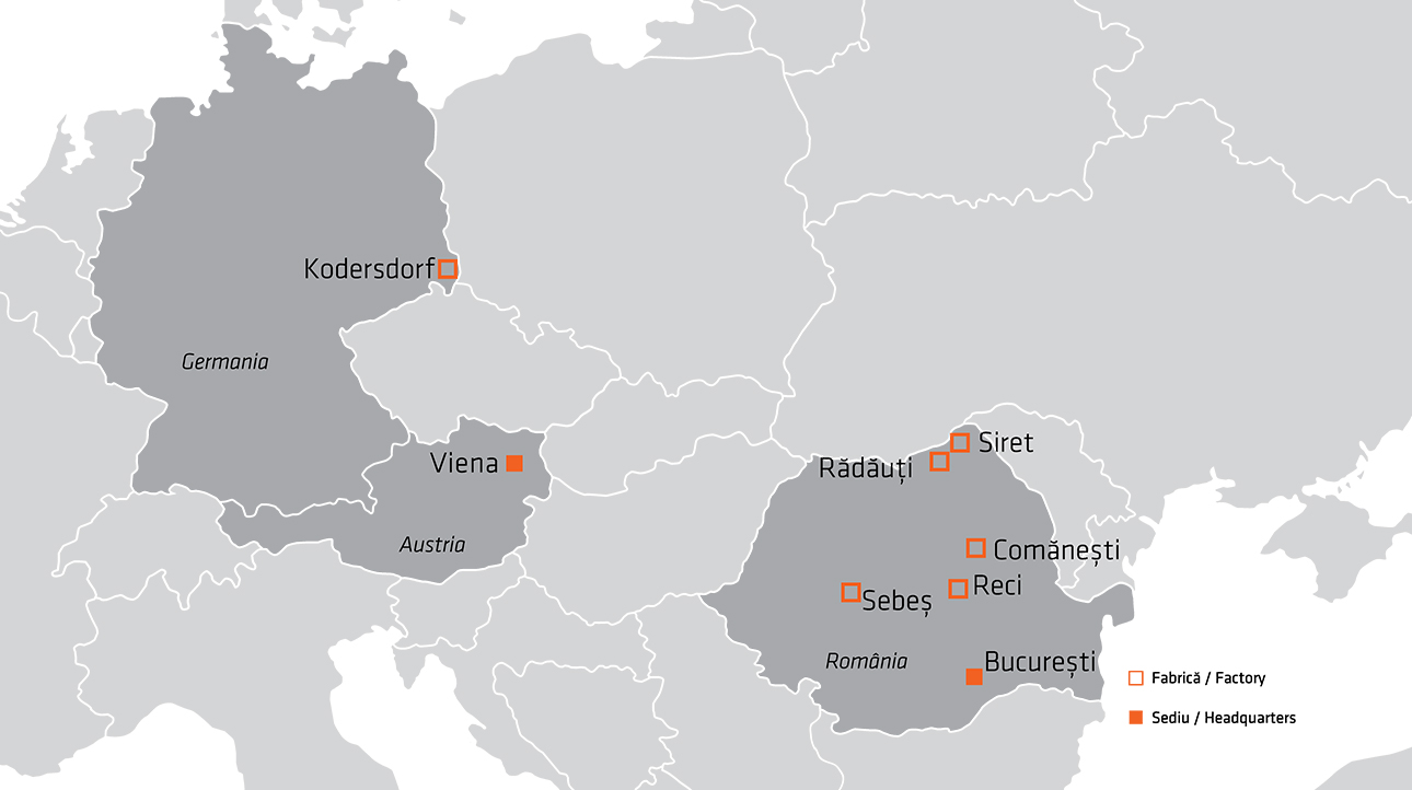 Map of Schweighofer's Production units in Romania